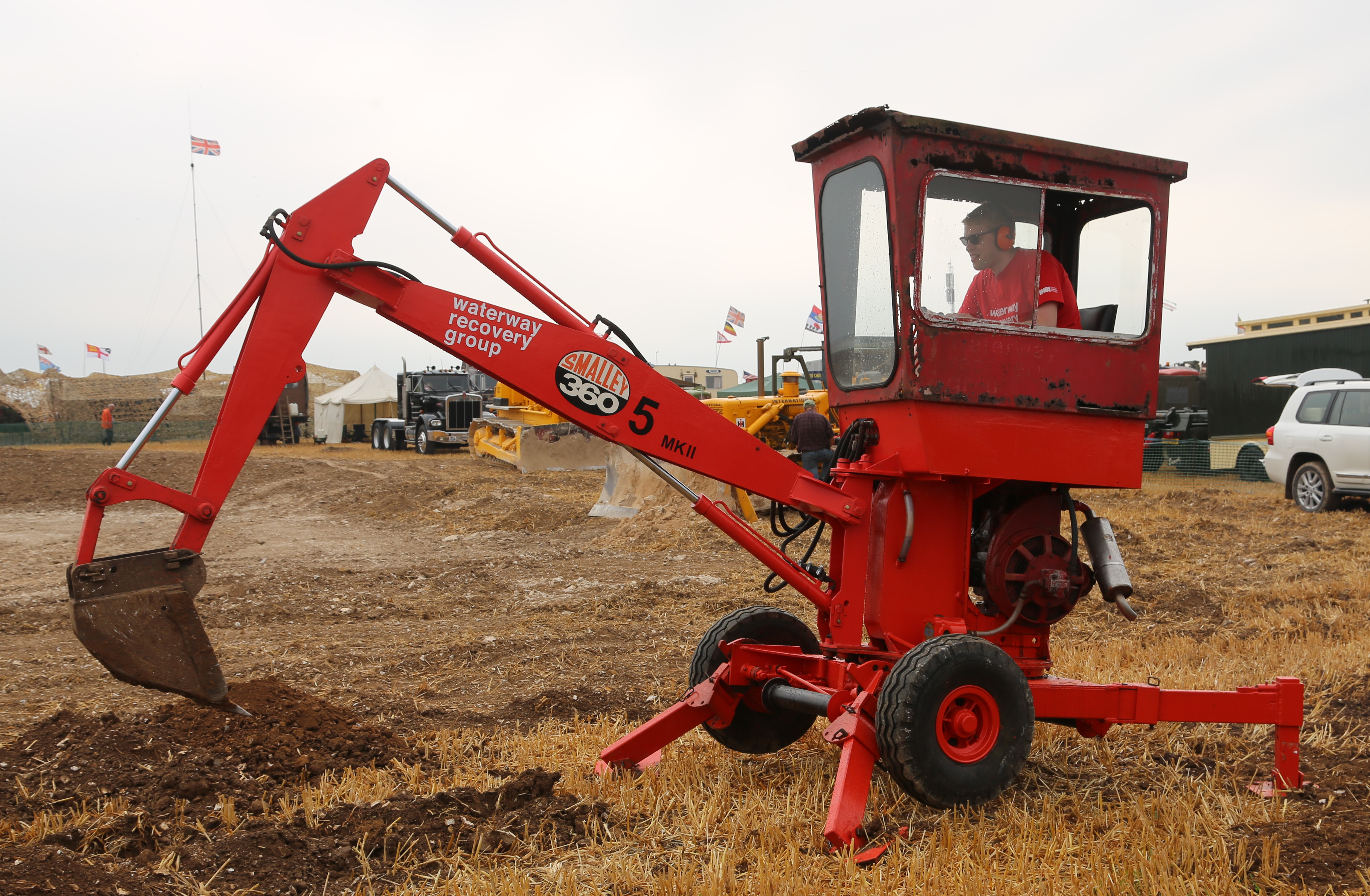 photo of a 1971 Smalley 5 Mk II mini digger in waterway recovery group markings